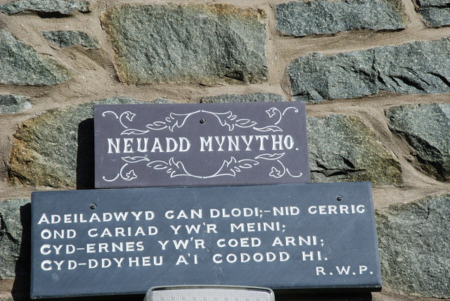 Plaque on Mynytho Memorial Hall The Hall was built during years of economic depression by local people working together. The englyn by the poet R. Williams Parry translates as: Built in poverty Love is its masonry Co-operation its timbers Raised by our longing.